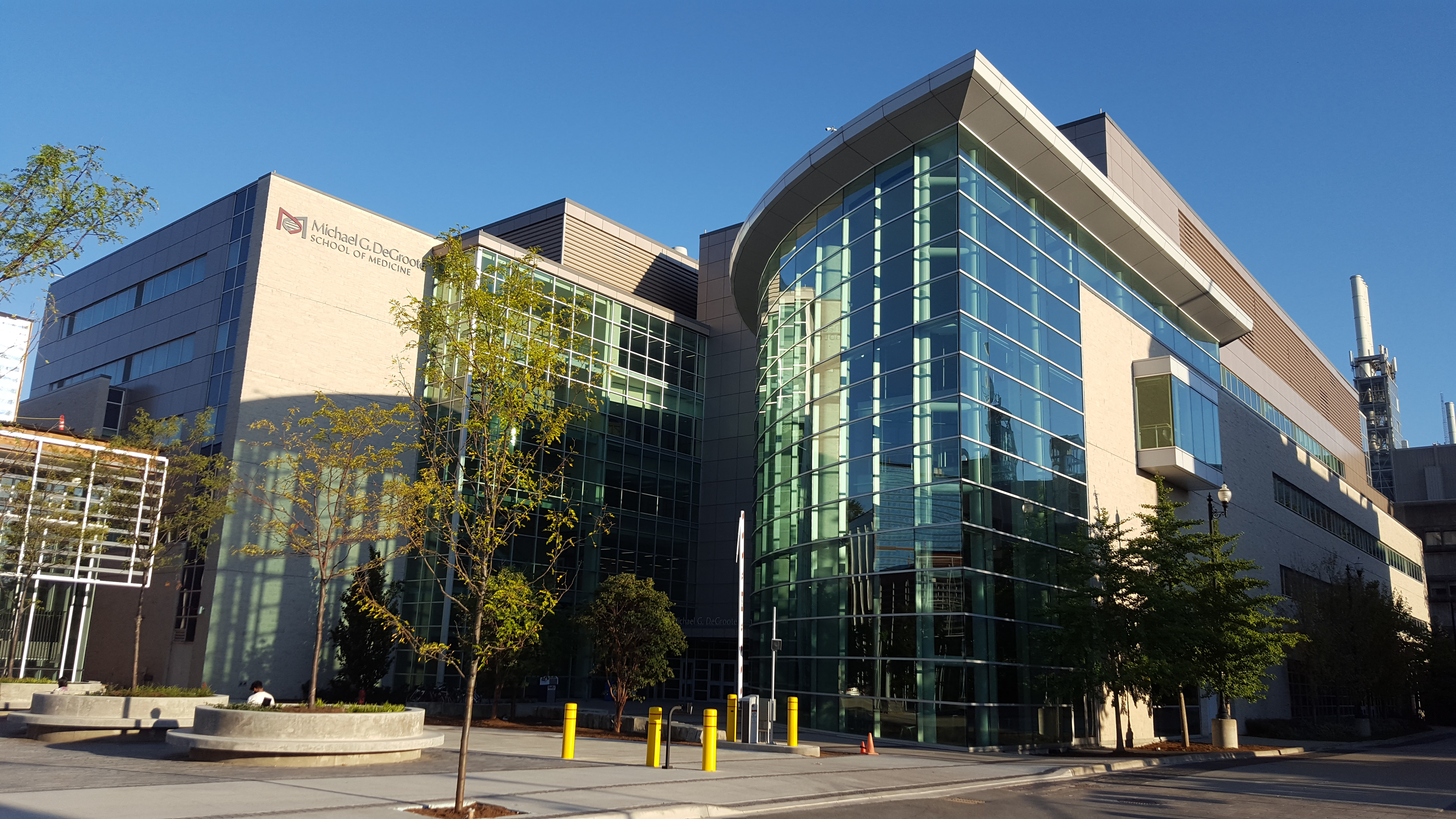 Medical building of McMaster University Medical School